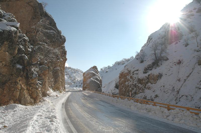 Photo of the place of the Persian Gate